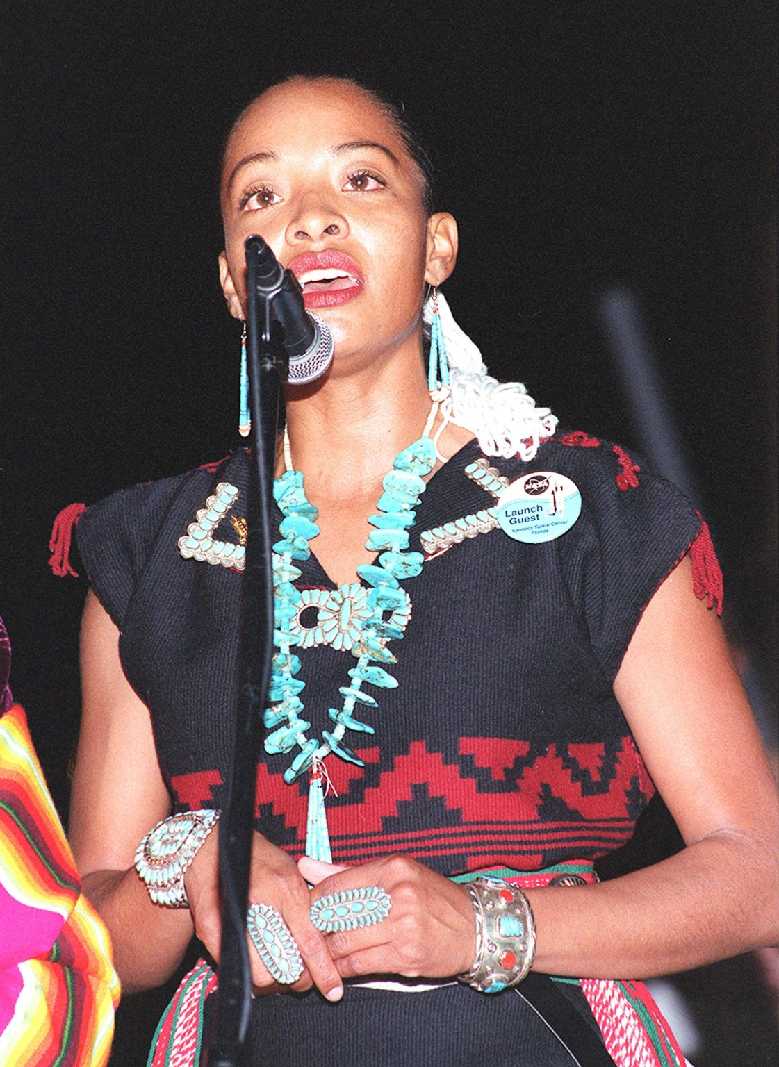 Radmilla Cody sings the Star-Spangled Banner in Navajo at the Kennedy Space Center, Florida Diné bizaad: Radmilla Cody "Dah Naatʼaʼí Sǫʼ bił Sinil" hataał; Kennedy Space Center hoolyéedi, Gah Bikéé Tááhiʼah.